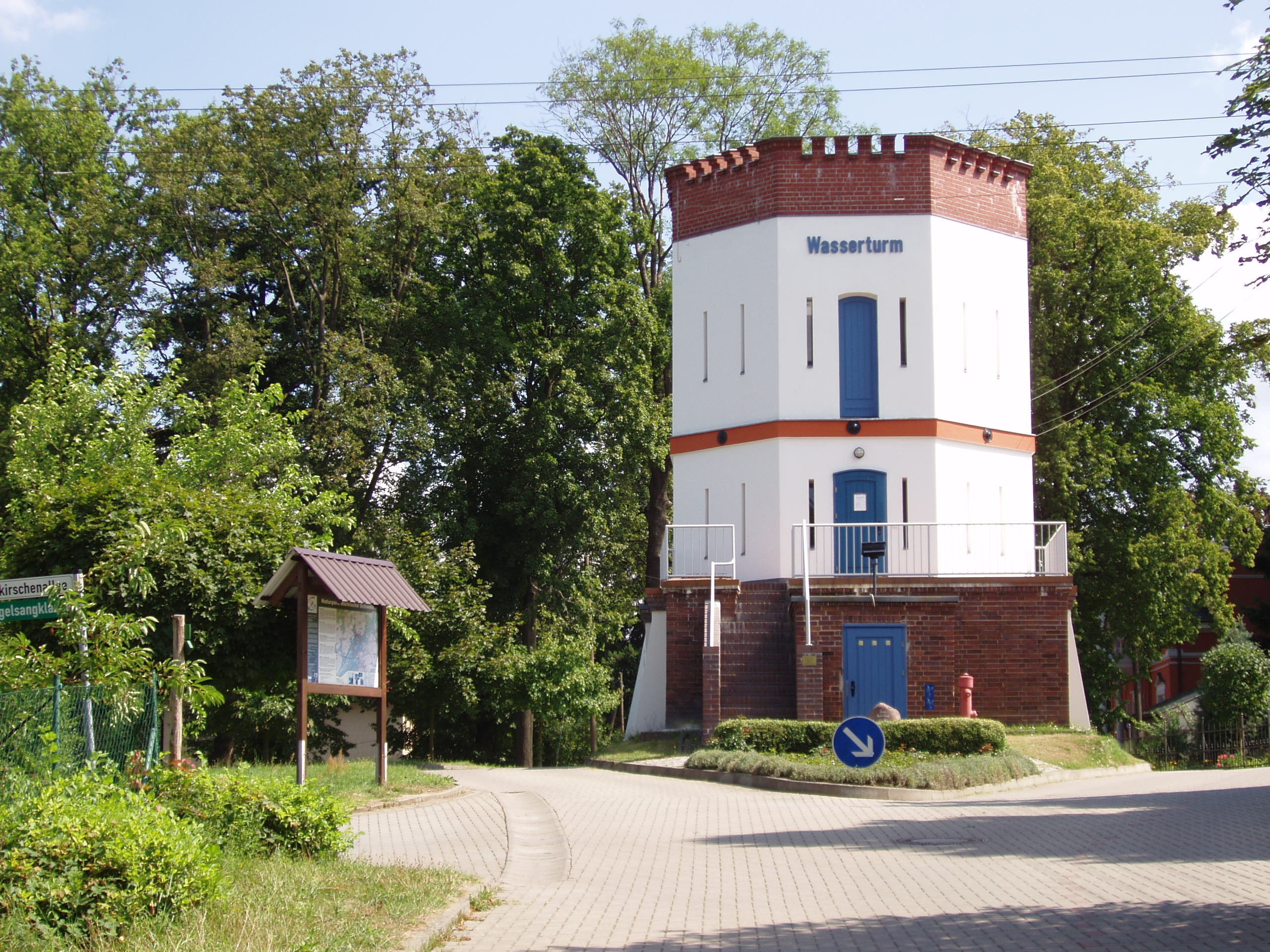 Water tower in Waldsieversdorf, Brandenburg, Germany.